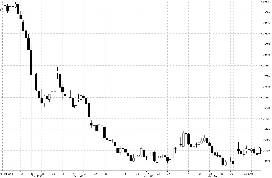 Charts day GBP/USD 1992